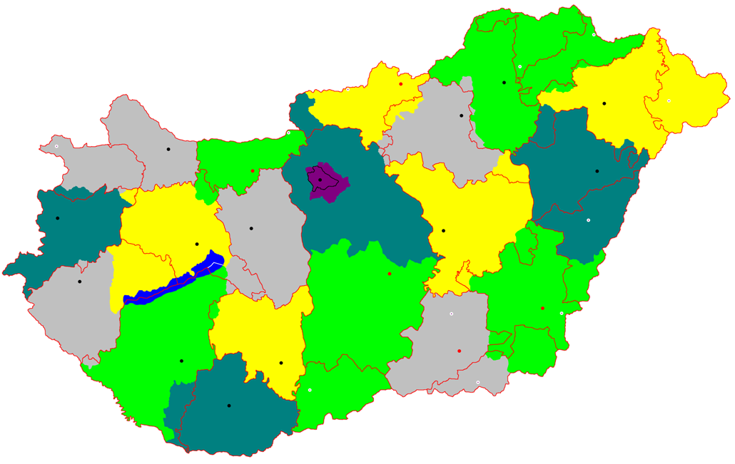 1950 administrative division reform in Hungary